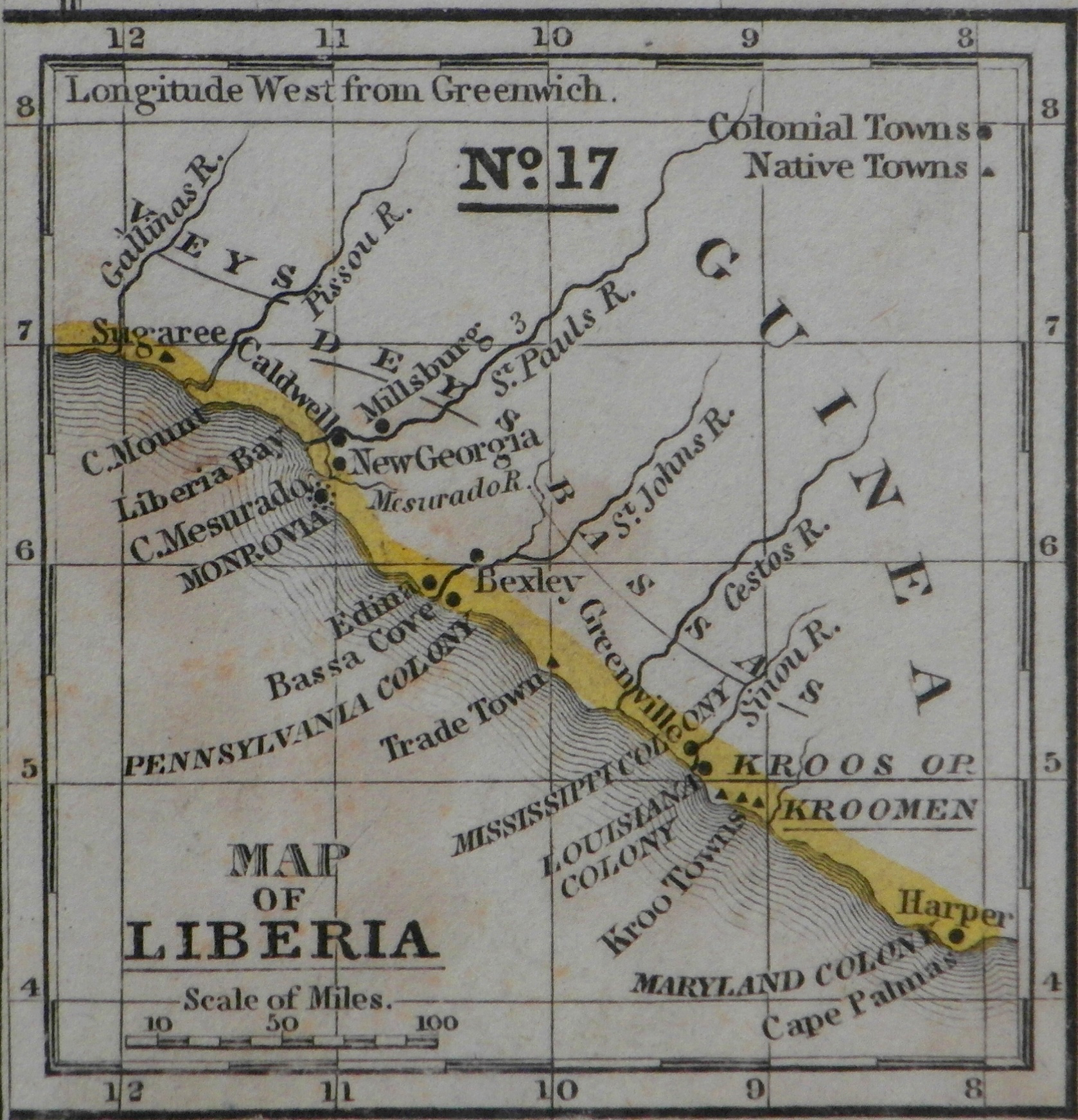 The map presented is taken from ‘A Map of Africa’ where it is shown as an inset in the left bottom corner. In the right top corner of the map is stated: "No. 16. Map of Africa. Engraved to illustrate Mitchell’s School and Family Geography.” Below the map is written: "Entered according to Act of Congress, in the year 1839, by S. Augustus Mitchell, in the Clerk’s Office of the District Court of Connecticut.”